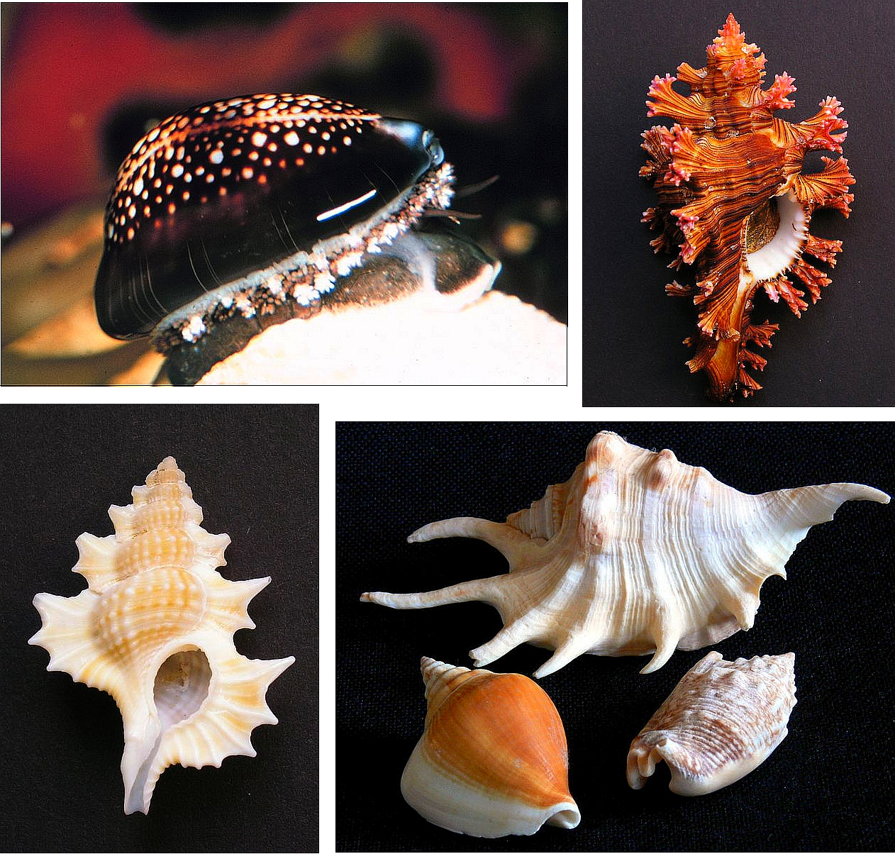 Composite of 4 images of Caenogastropoda. Images: Strombidae, Cypraea Caputserpentis, Biplex Perca, Chicoreus Palmarosae